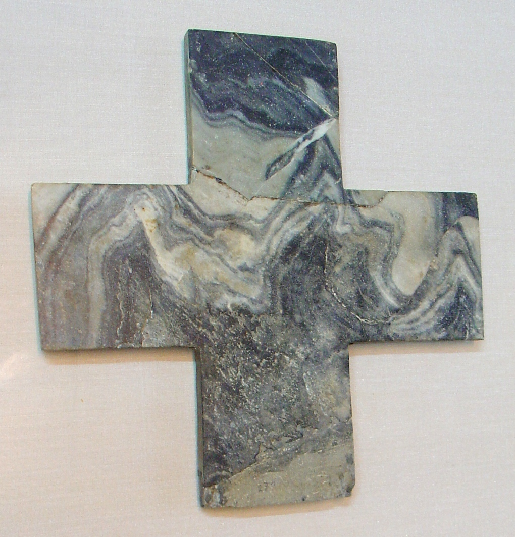 1600 BCE marble sacral cross from the Temple Repositories of Knossos. Heraclion Archaeological Museum, Greece.